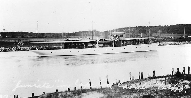 The yacht Juniata in the Cape Cod Canal in Massachusetts prior to her service as the United States Navy patrol vessel USS Juniata (SP-602)